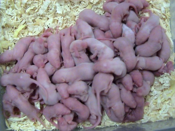 Feeder mice.